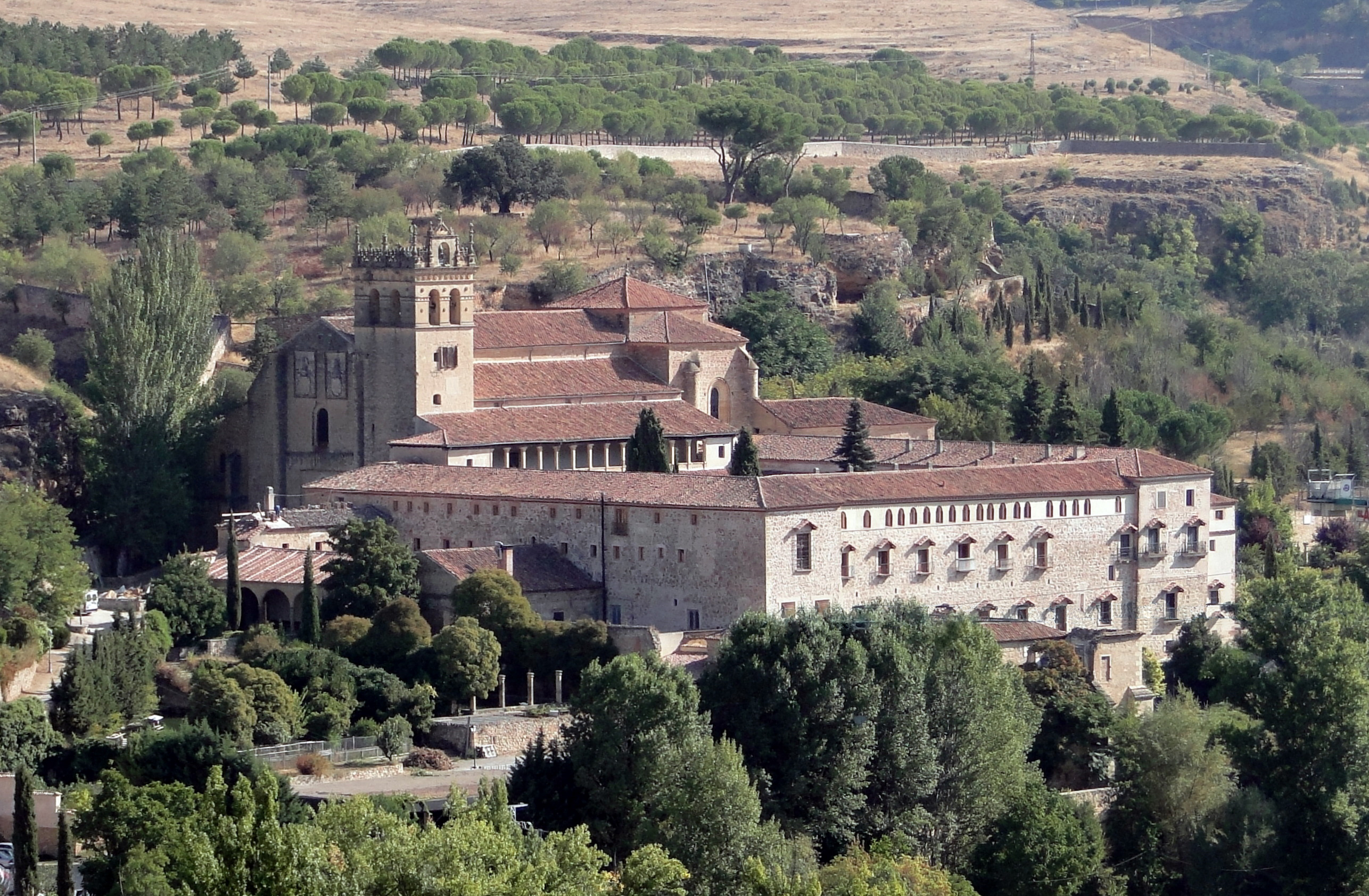 Monastery of Santa Maria del Parral, Segovia, Spain